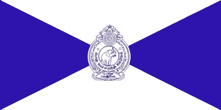 Flag of the Sri Lanka Police